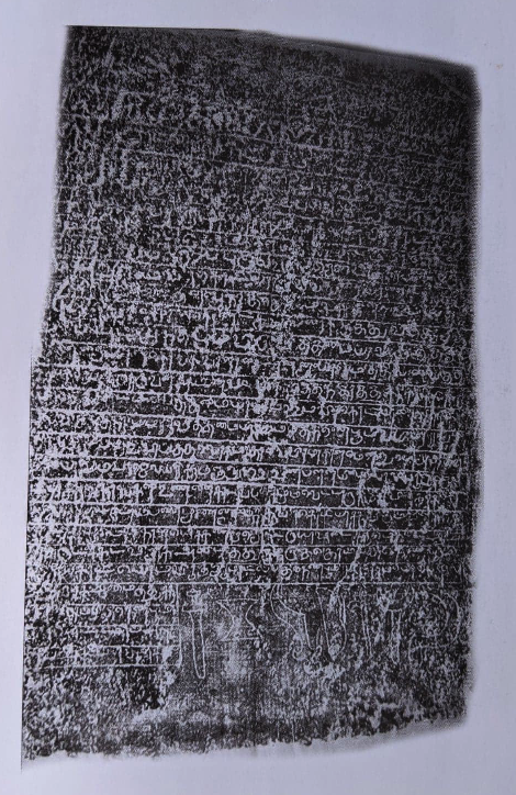 Budumuttava Virakkoti inscription ii